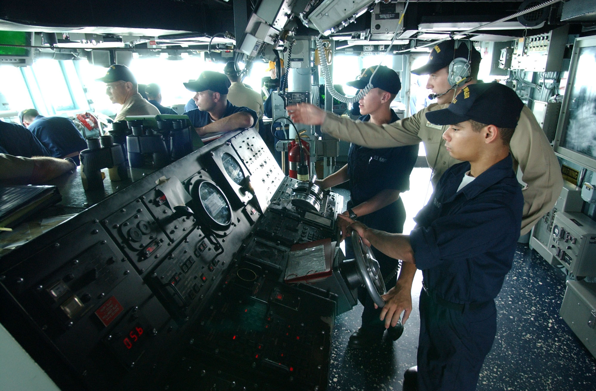 Aboard USS Curtis Wilbur (DDG 54) July 22, 2004 - Seaman Edwin Laureano stands helmsman watch and executes rudder orders during sea and anchor detail aboard the Yokosuka based Arleigh Burke class guided missile destroyer USS Curtis Wilbur (DDG 54). Curtis Wilbur is currently deployed in the 7th fleet area of responsibility undergoing testing and qualification by Afloat Training Group (ATG) and Commander, Destroyer Squadron fifteen, during the ships Mid-Cycle assessment. U.S. Navy photo by Photographer’s Mate 2nd Timothy Smith (RELEASED)